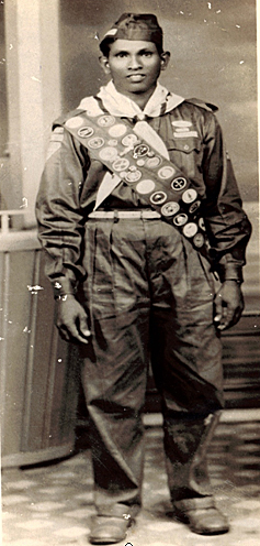 Pastor Samuthram inspires young people to be Missionary Volunteers, 1958